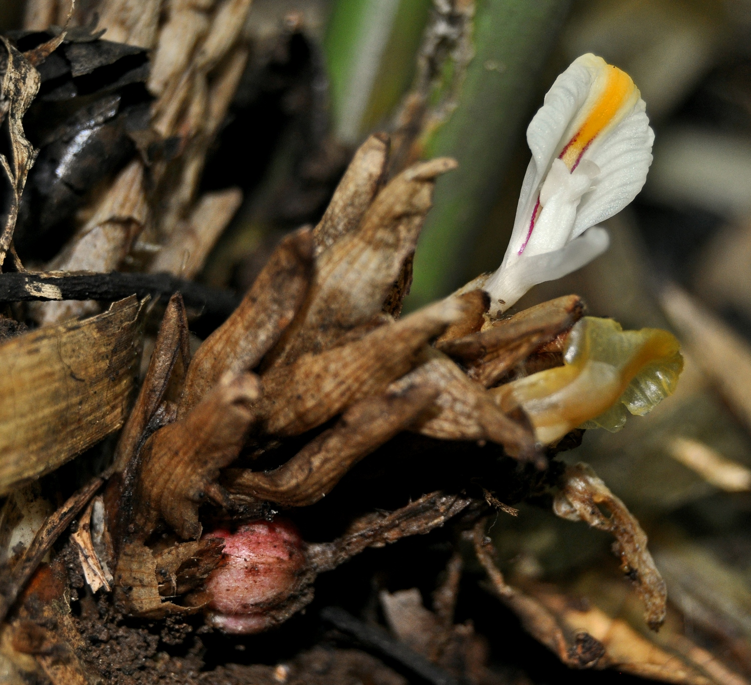 Amomum compactum, fruit (below, left) and flower. Situgede, Bogor, West Java, Indonesia.